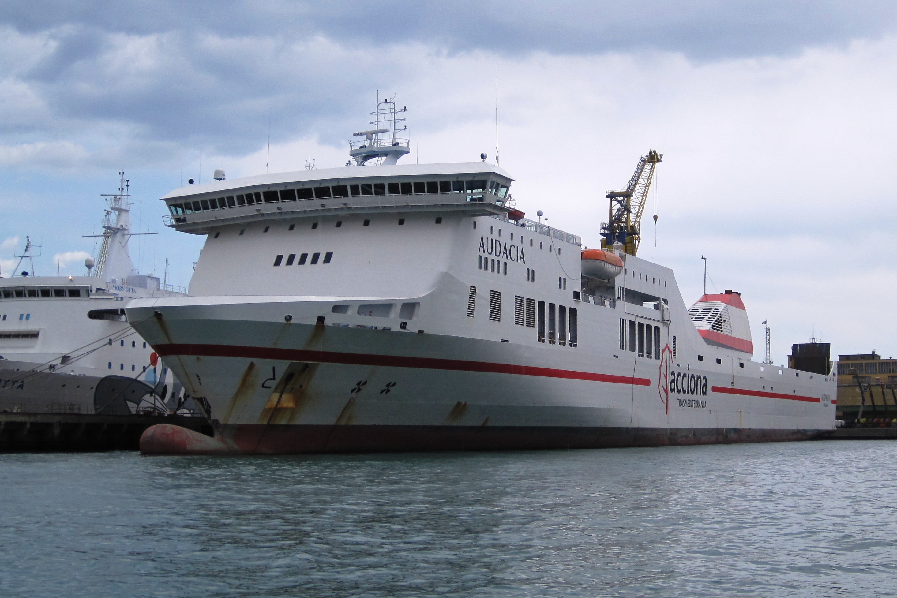 Audacia ship in Genoa